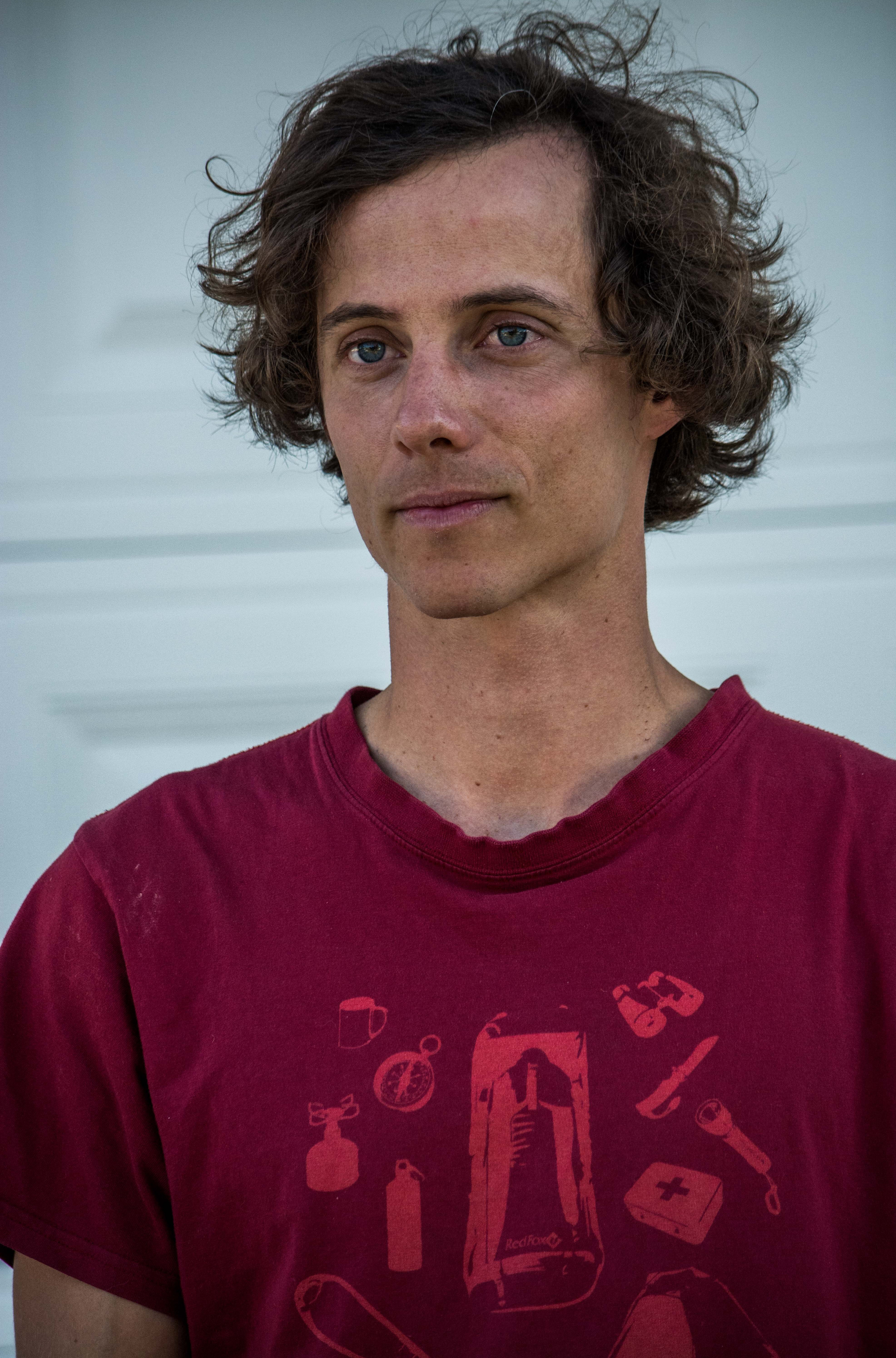 Friedi Kühne October 2018